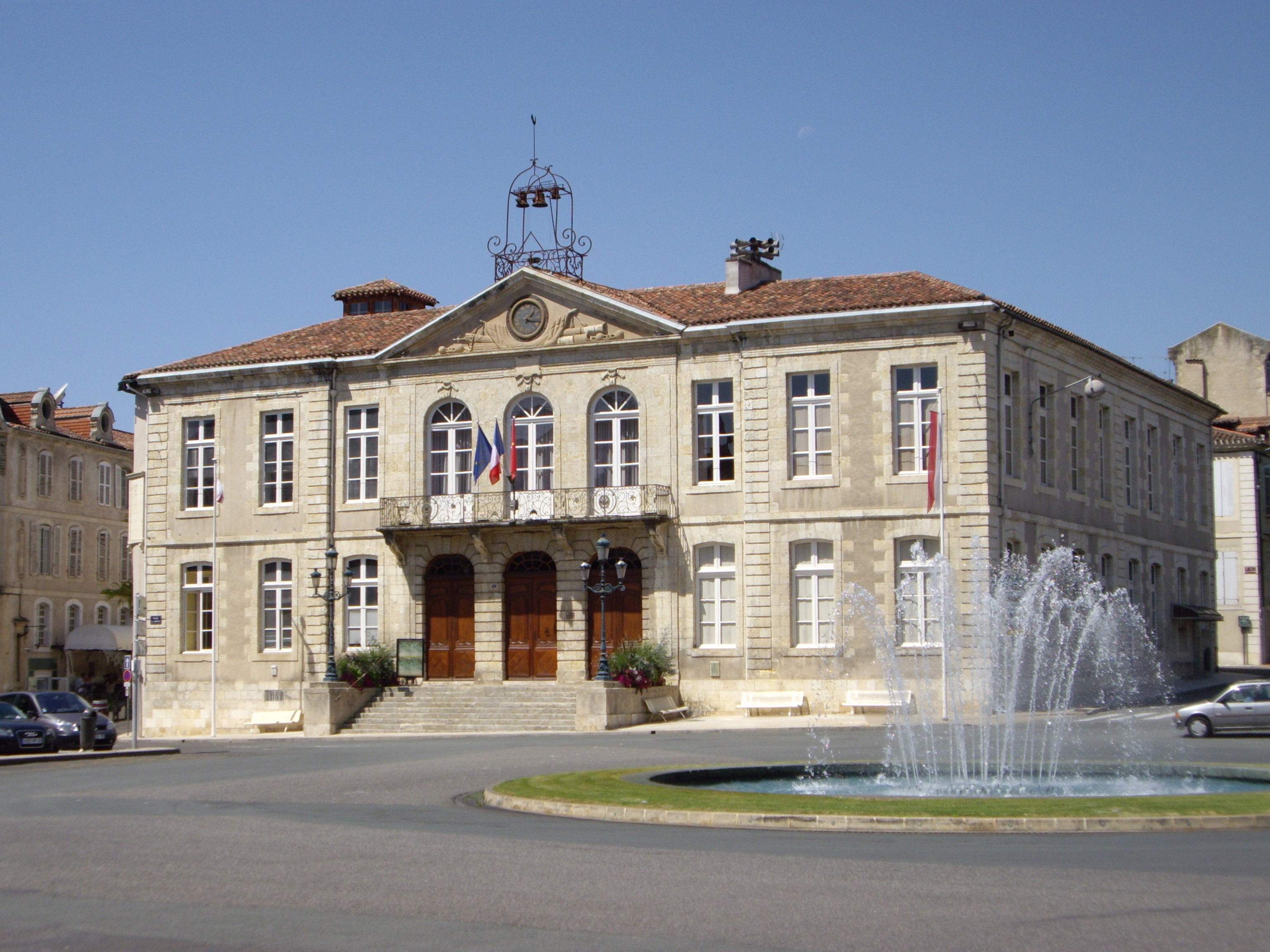 Auch Town Hall, Gers, France